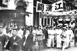 Jianghanguan workers joined Hankou Liberation Celebration Parade on May 16, 1949.